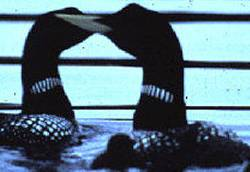 Yellow-billed Loon (Gavia adamsii